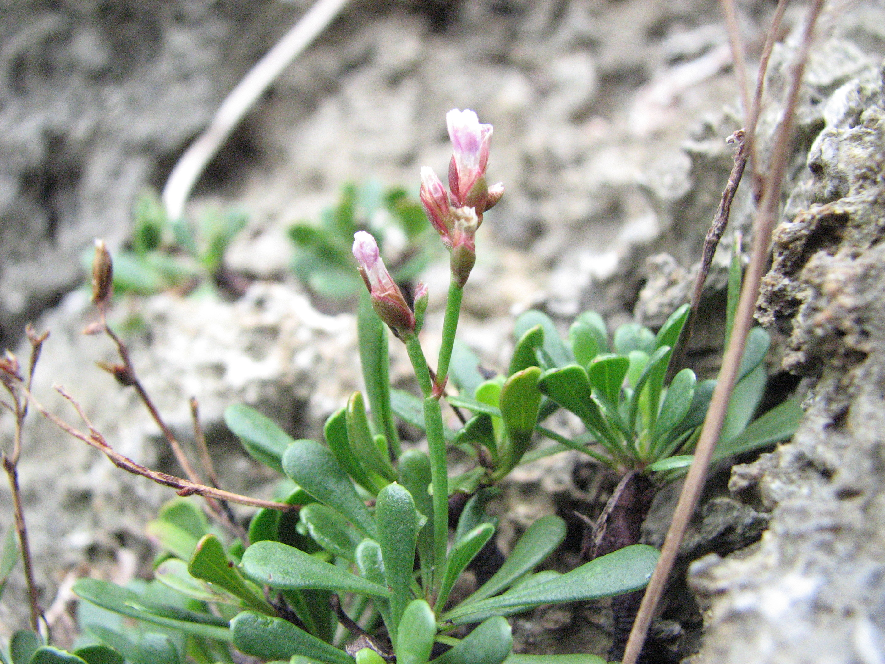 Frower of limonium wrightii at Iriomote is. Okinawa, Japan